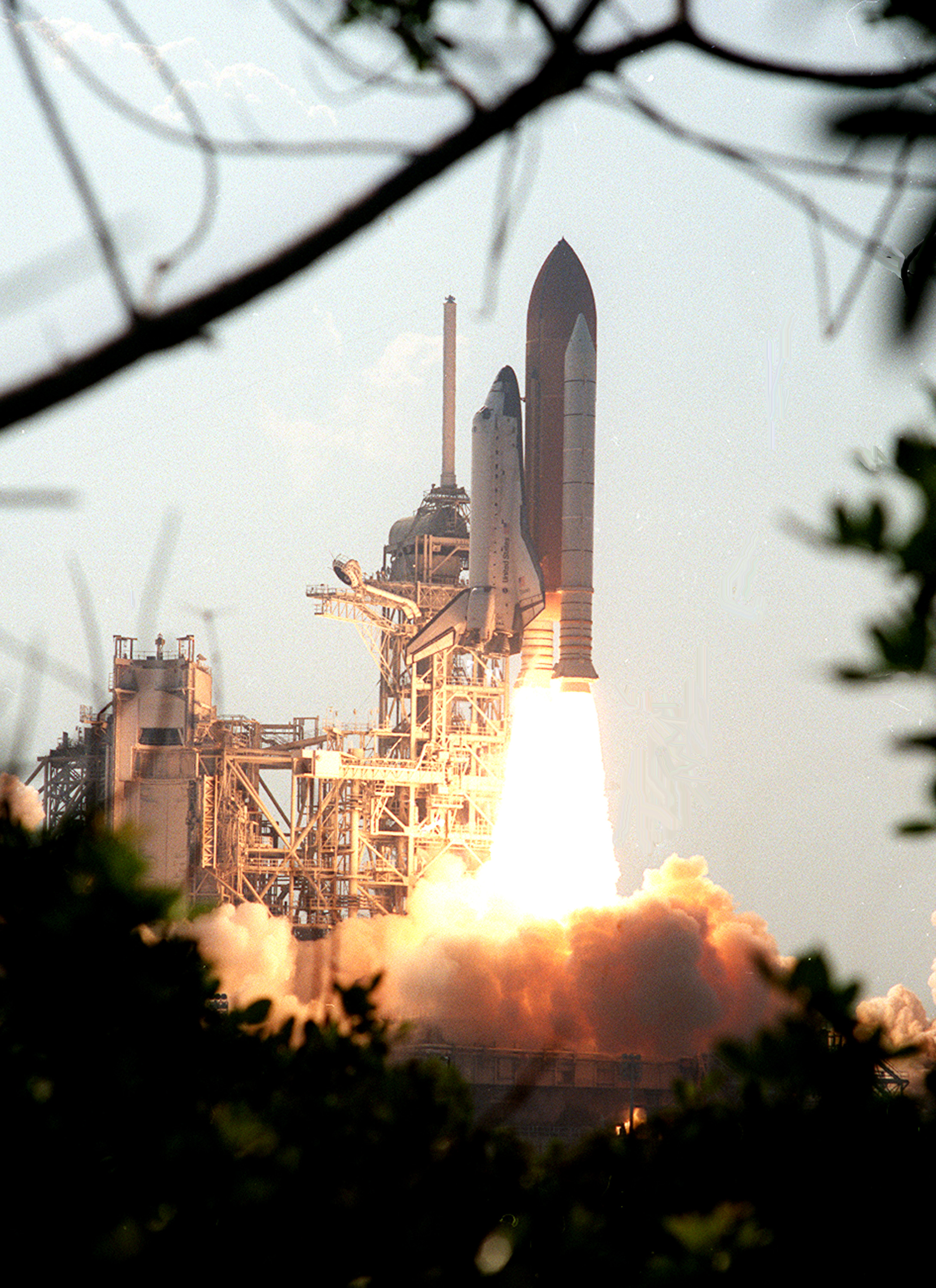 Perfect launch for Space Shuttle Discovery on mission STS-105.